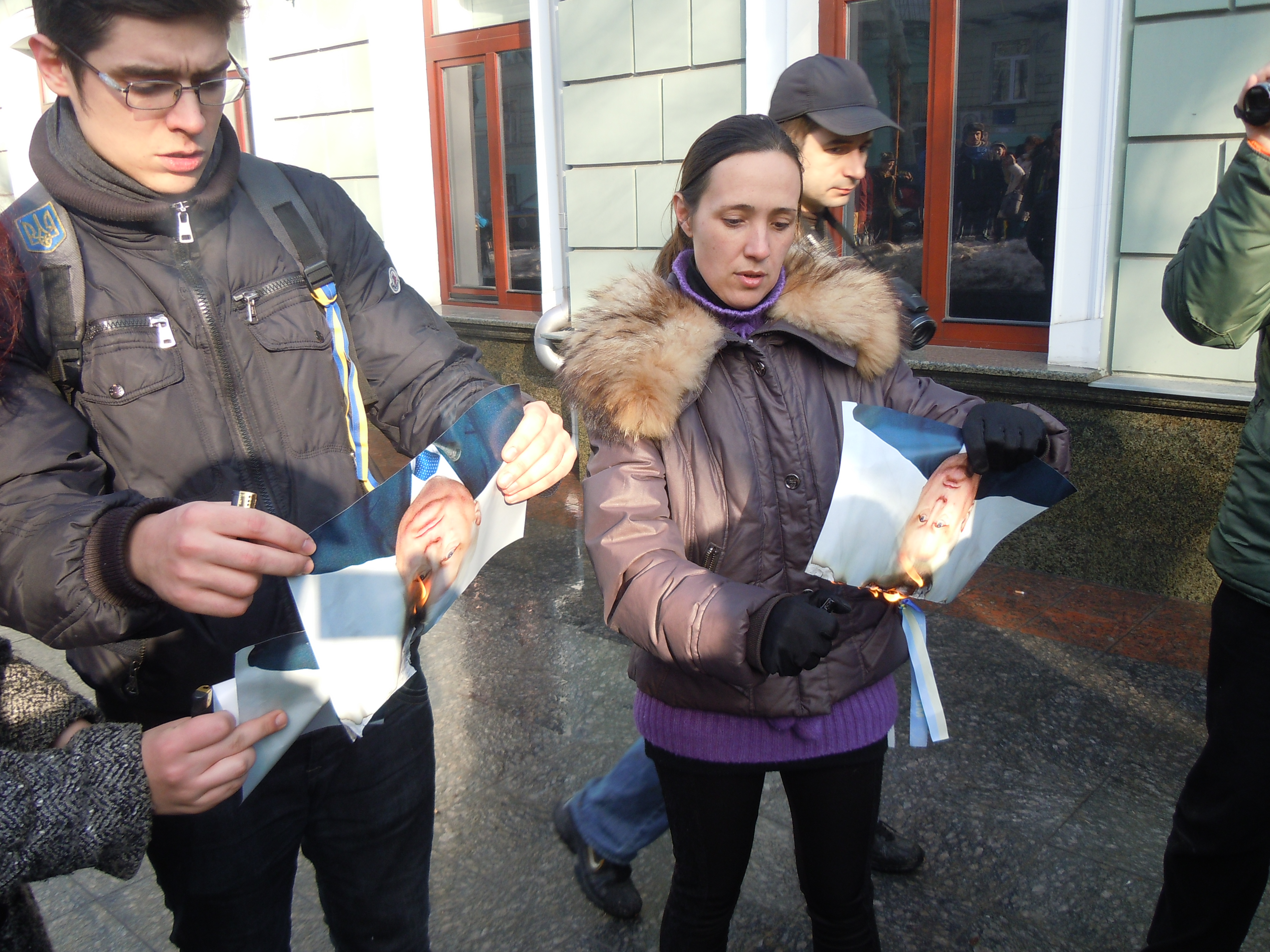 "Western people march" in Odessa. The burning of the portrait of General Prosecutor of Ukraine, Viktor Pshonka, near the building of the Regional Prosecutory of Odessa Oblast.